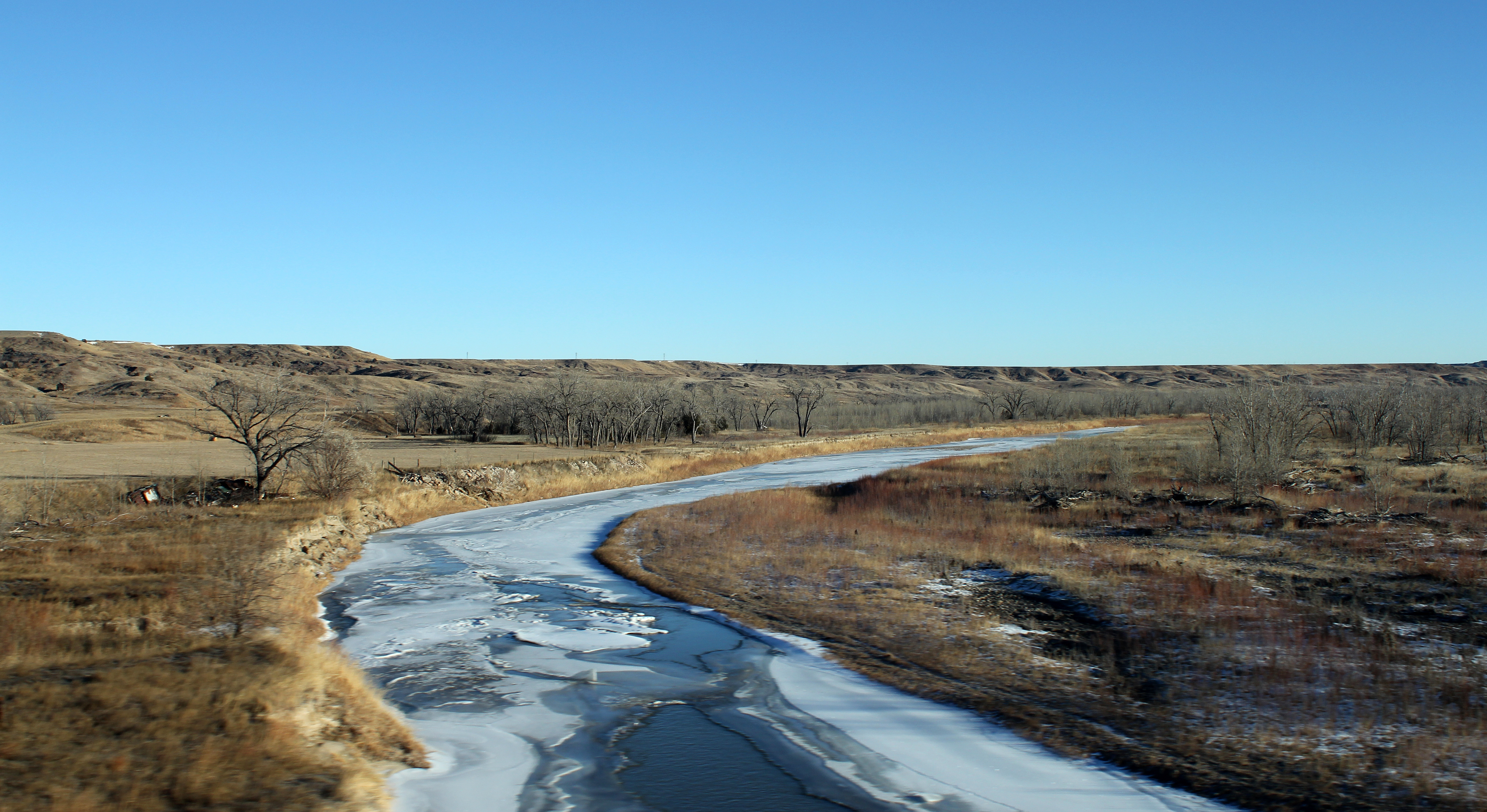 The Cheyenne River. The view is looking northwards, and the picture was taken from a car traveling on Interstate-90.